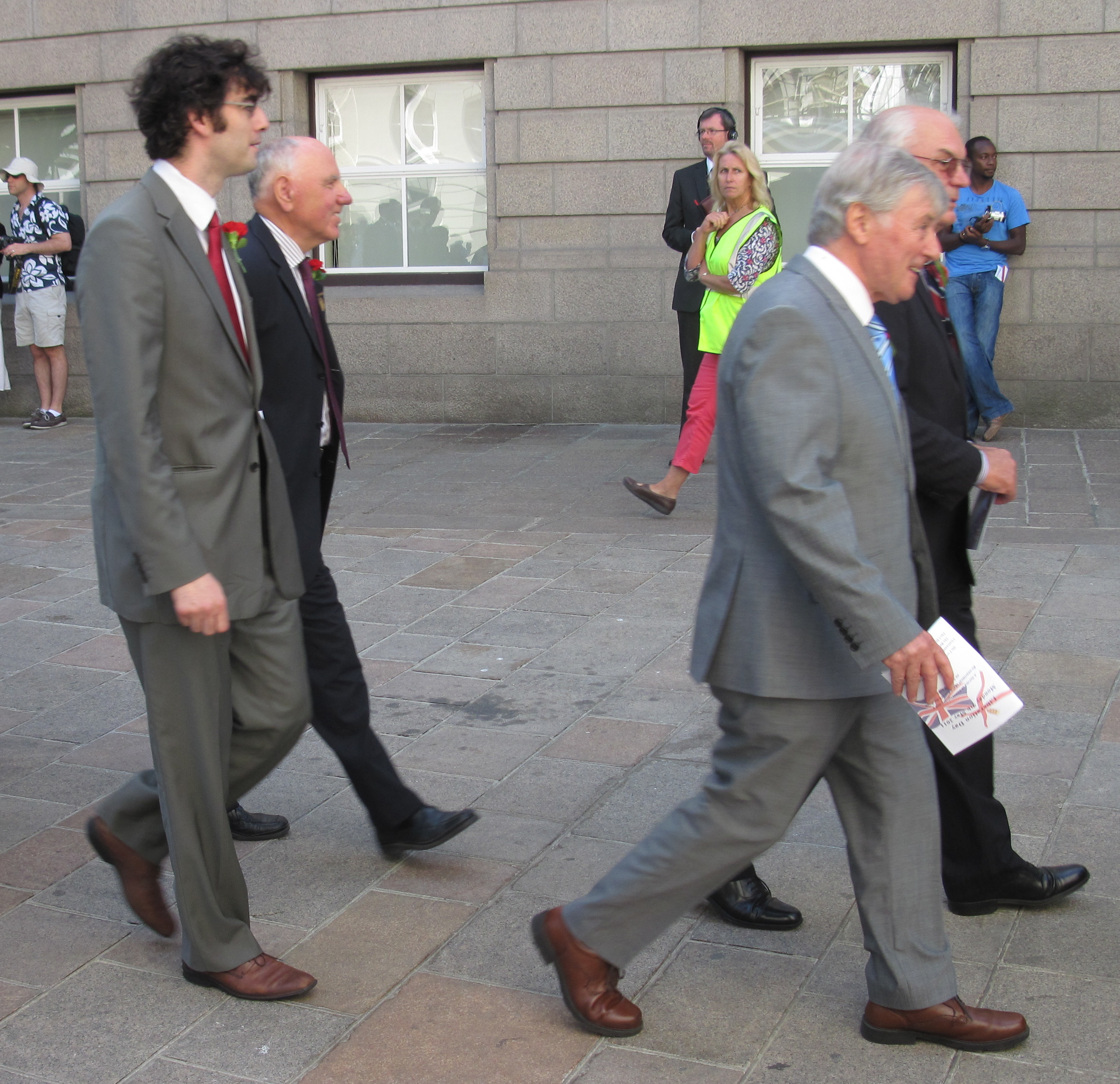 Liberation Day celebrations in Jersey 2011